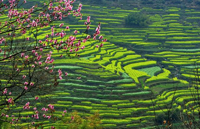 flower sea in wuyuan huangli scenery